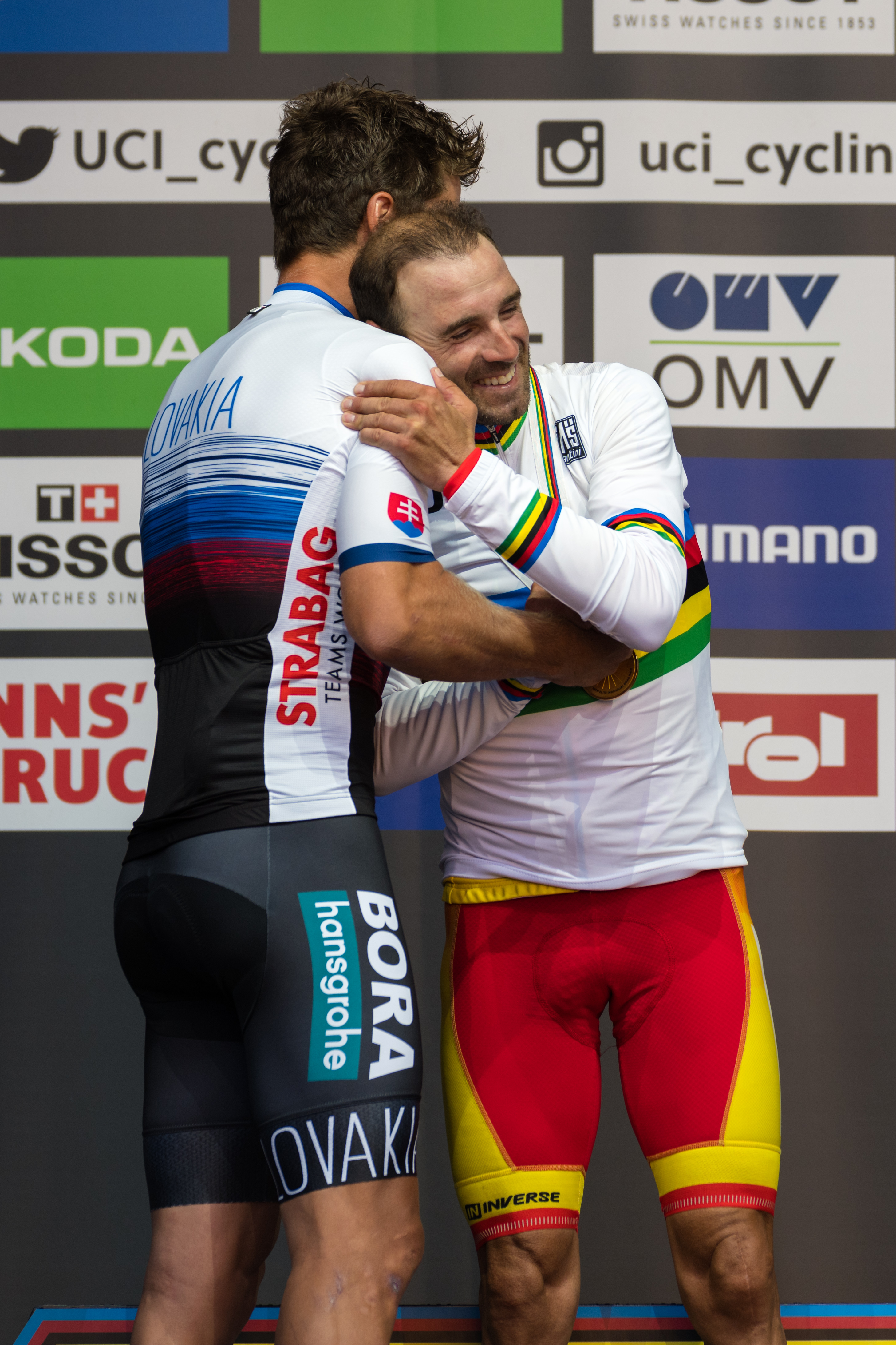 2018 UCI Road World Championships Innsbruck/Tirol Men Elite Road Race. Picture shows: Award Ceremony with Peter Sagan of Slovakia hugs the new World Champion Alejandro Valverde of Spain